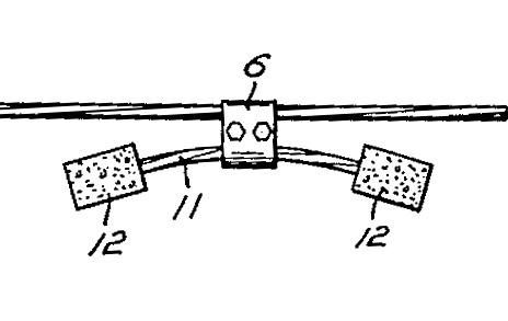 A close up of Stockbridge's 1928 patent application for a device to suppress vibrations on overhead power lines – This is cropped from figure 3 of the application